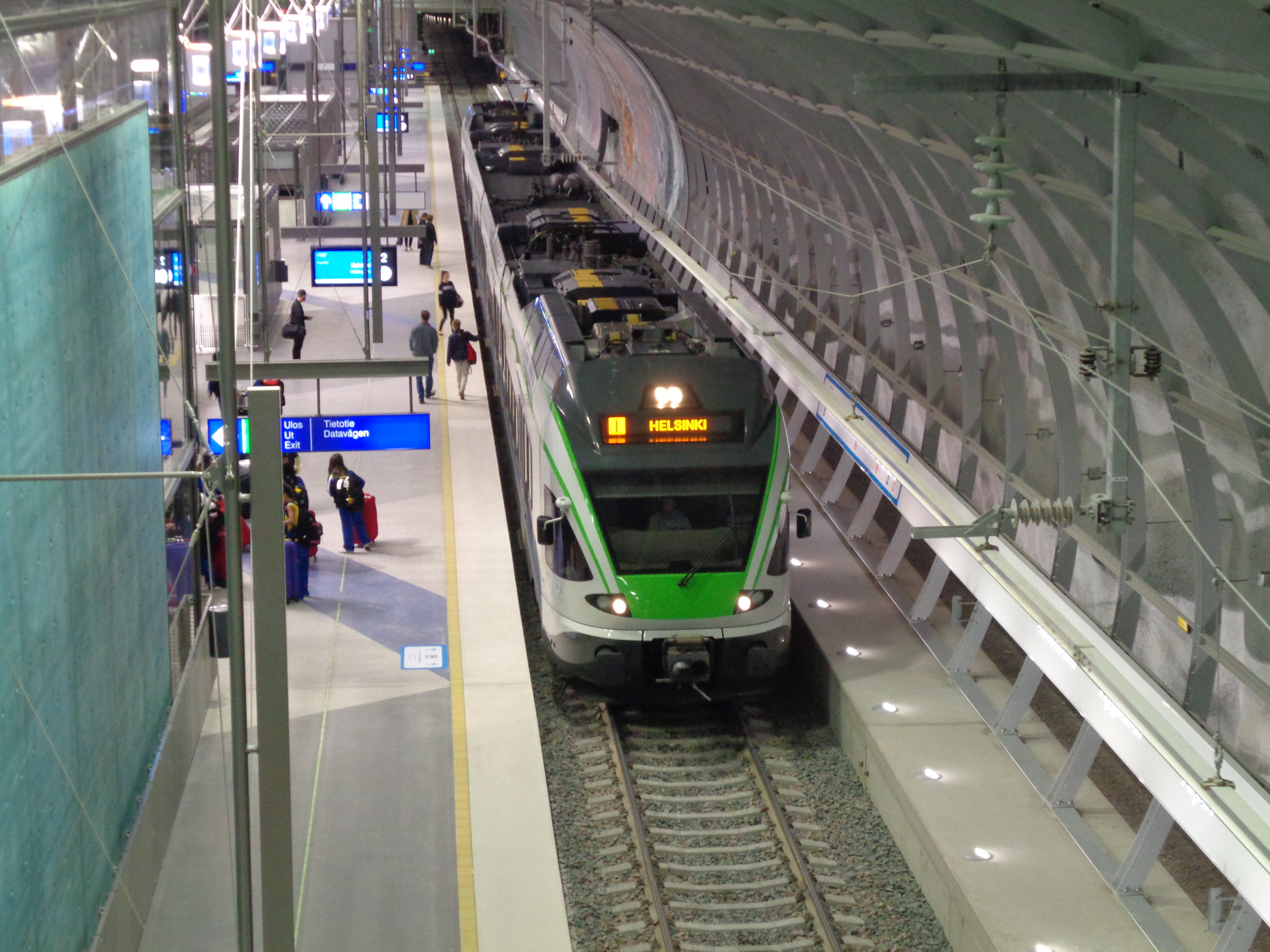 Line I commuter train at Airport railway station.